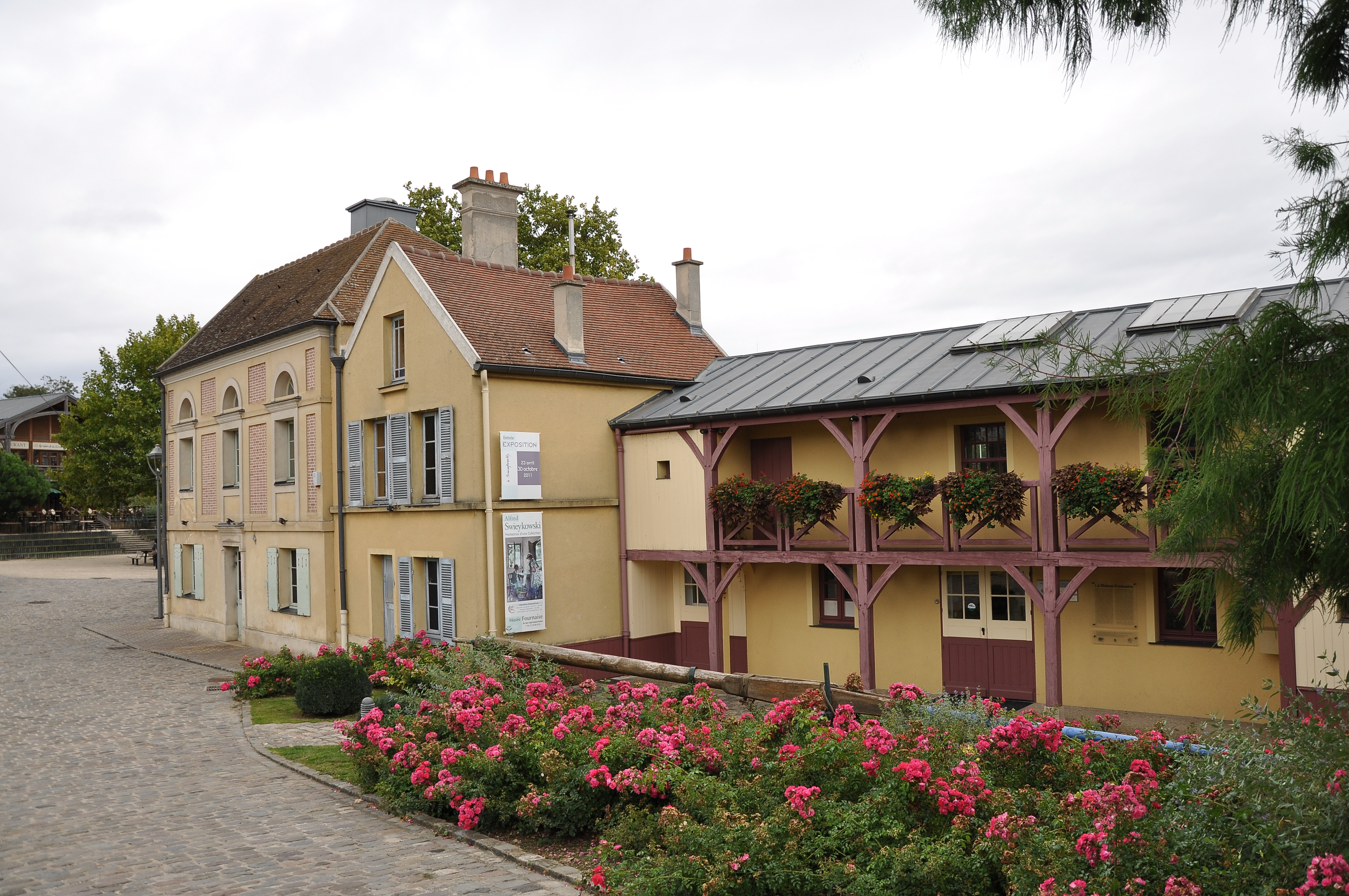 Maison Fournaise in Chatou, department of Yvelines in France. The restaurant was frequented by the impressionist's painters and paints by Auguste Renoir.